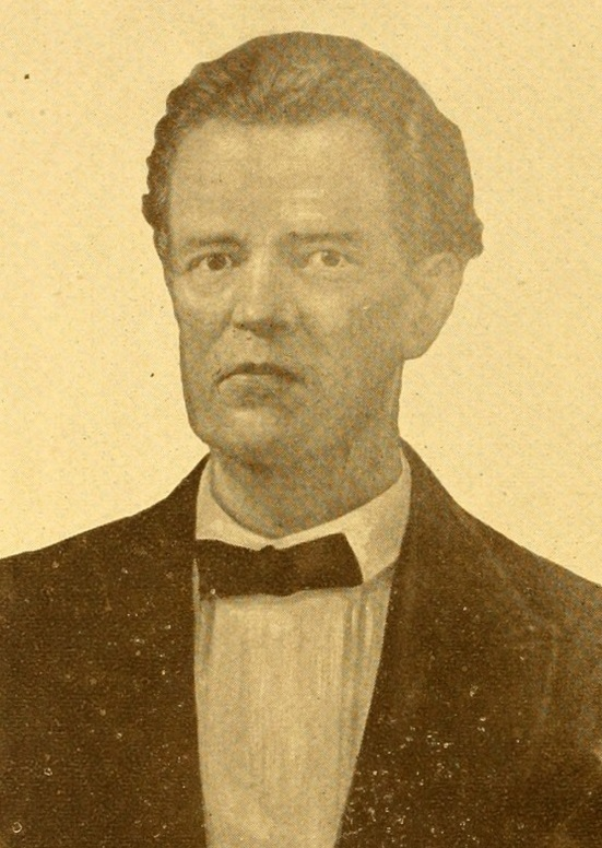 William Parish Chilton, Alabama Judge and Confederate Congressman.